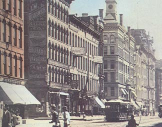 Brunswick Factory on State Street, Chicago in 1888